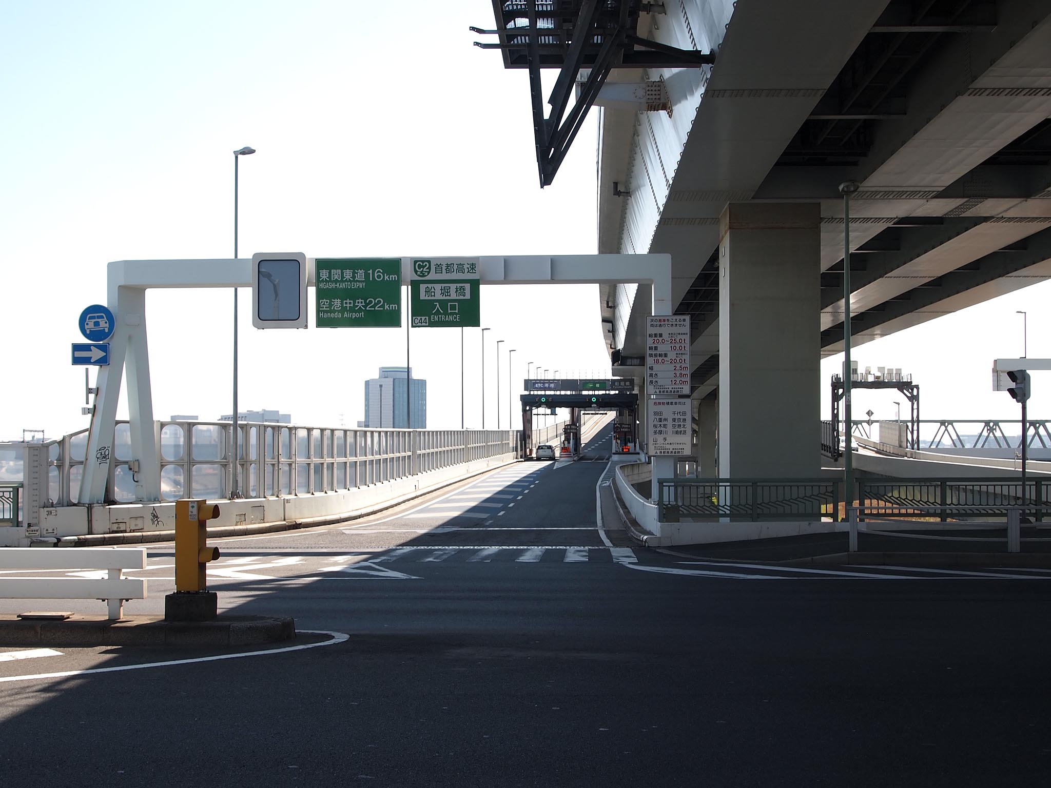 Entrance and toll gate of Funabori-bashi ramp.